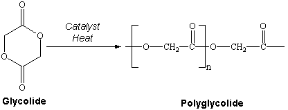 This picture shows a schematic view of the polymerization reaction of polyglycolide from glycolide (dimer of glycolic acid). Selfmade by User:Berserker79